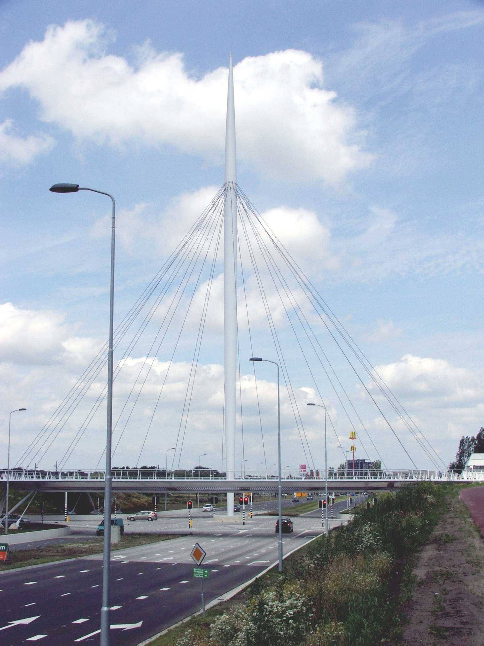 Hovenring: Elevated cyclists' roundabout between Eindhoven and Veldhoven (Netherlands).